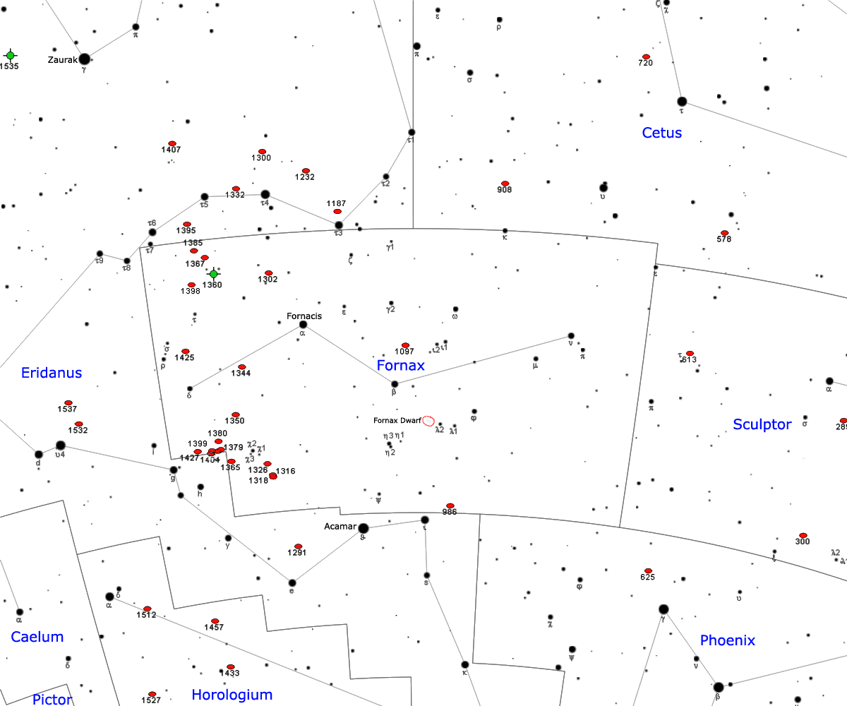 Map of Fornax